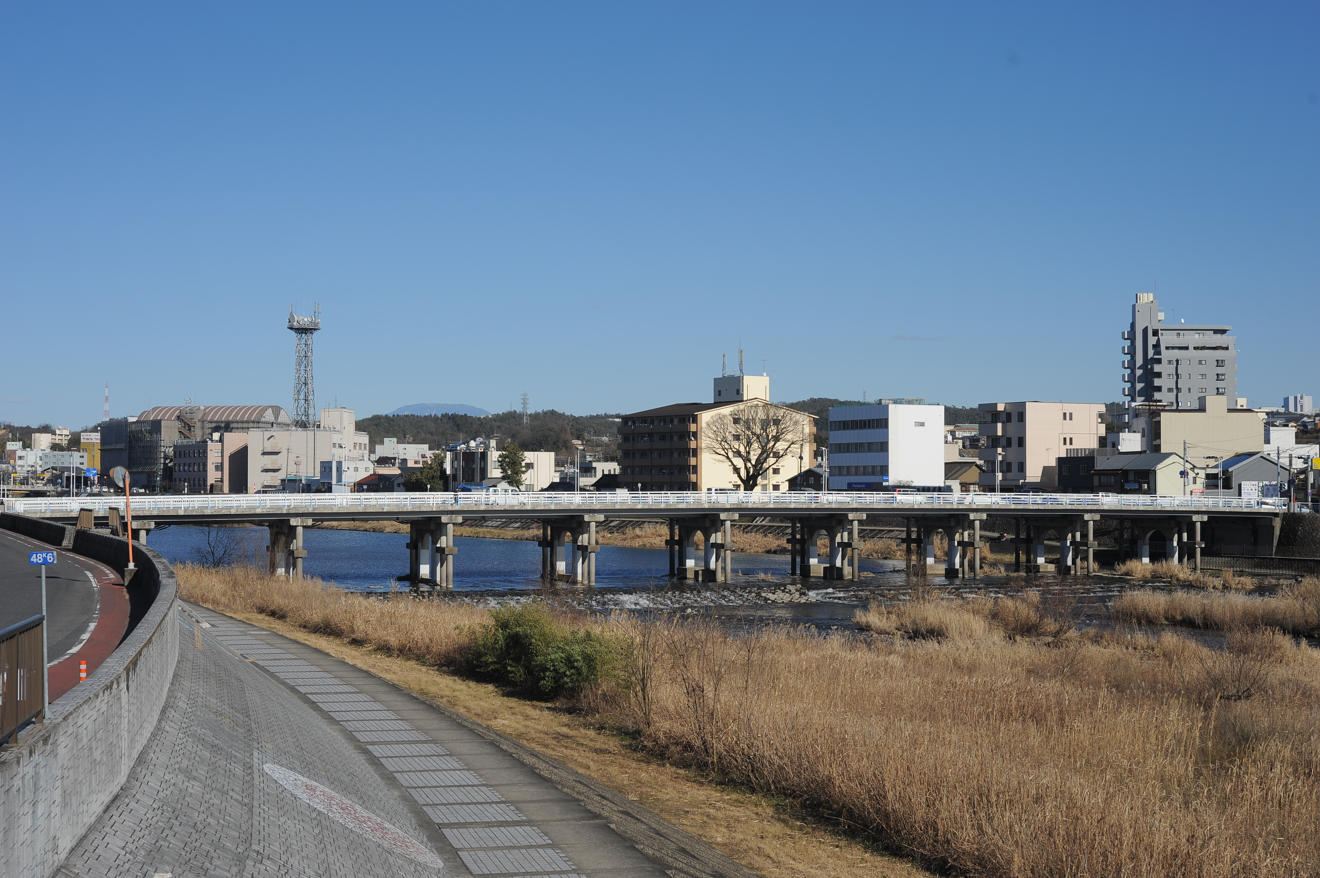 Showa bridge (Toki river), Tajimi, Gifu